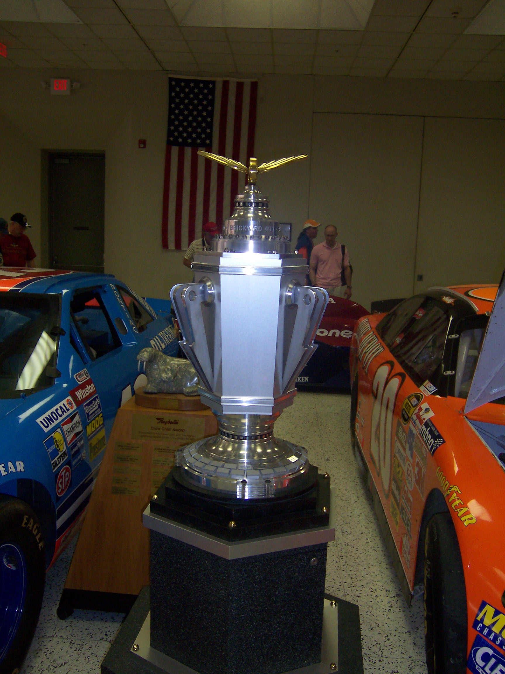 The PPG Trophy for the Brickyard 400 on display at the Indianapolis Motor Speedway Hall of Fame Museum